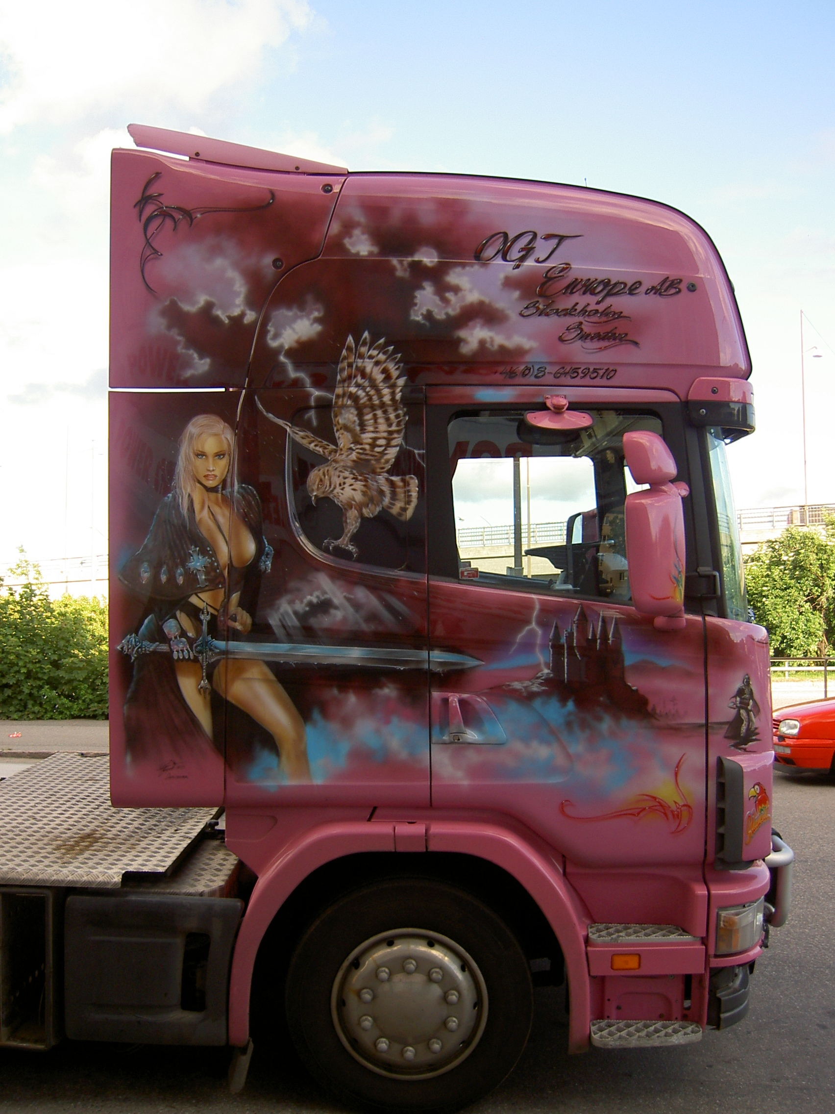 Truck, airbrushed paint job